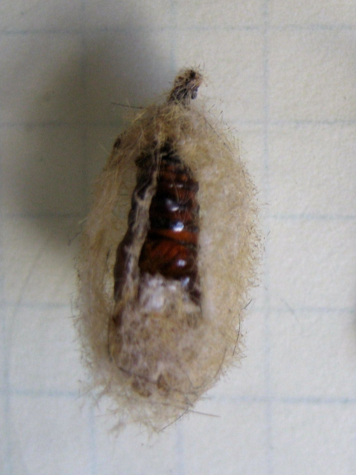 An empty Orgyia vetusta (Western Tussock Moth) cocoon at Stanford University. For reference, the squares in the background are 0.20 x 0.20 inches (5.1 x 5.1 millimeters).